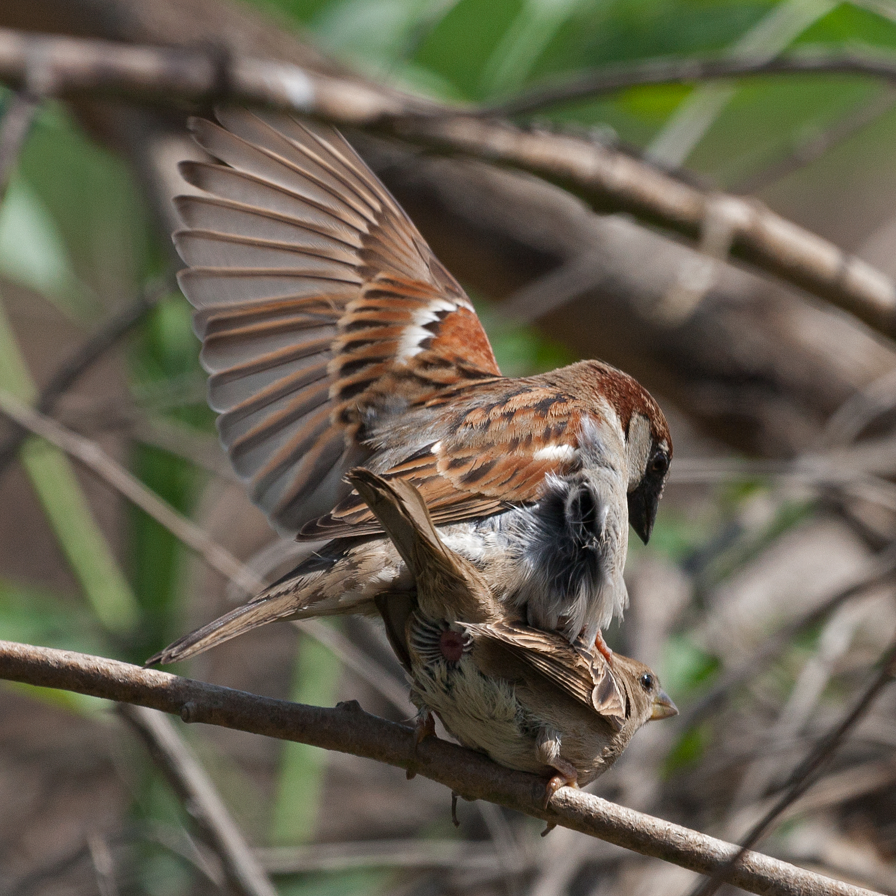 House sparrow mating